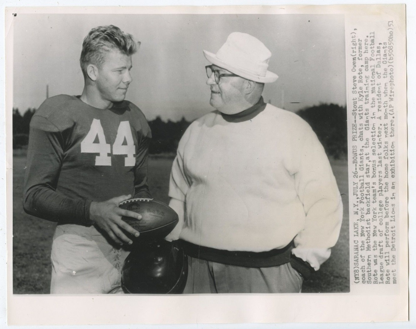 Original July 26 1951 Steve Owens & Kyle Rote New York Giants NFL FB Wire Photo